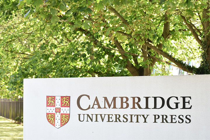 The entrance sign to Cambridge University Press's head office in Cambridge, England